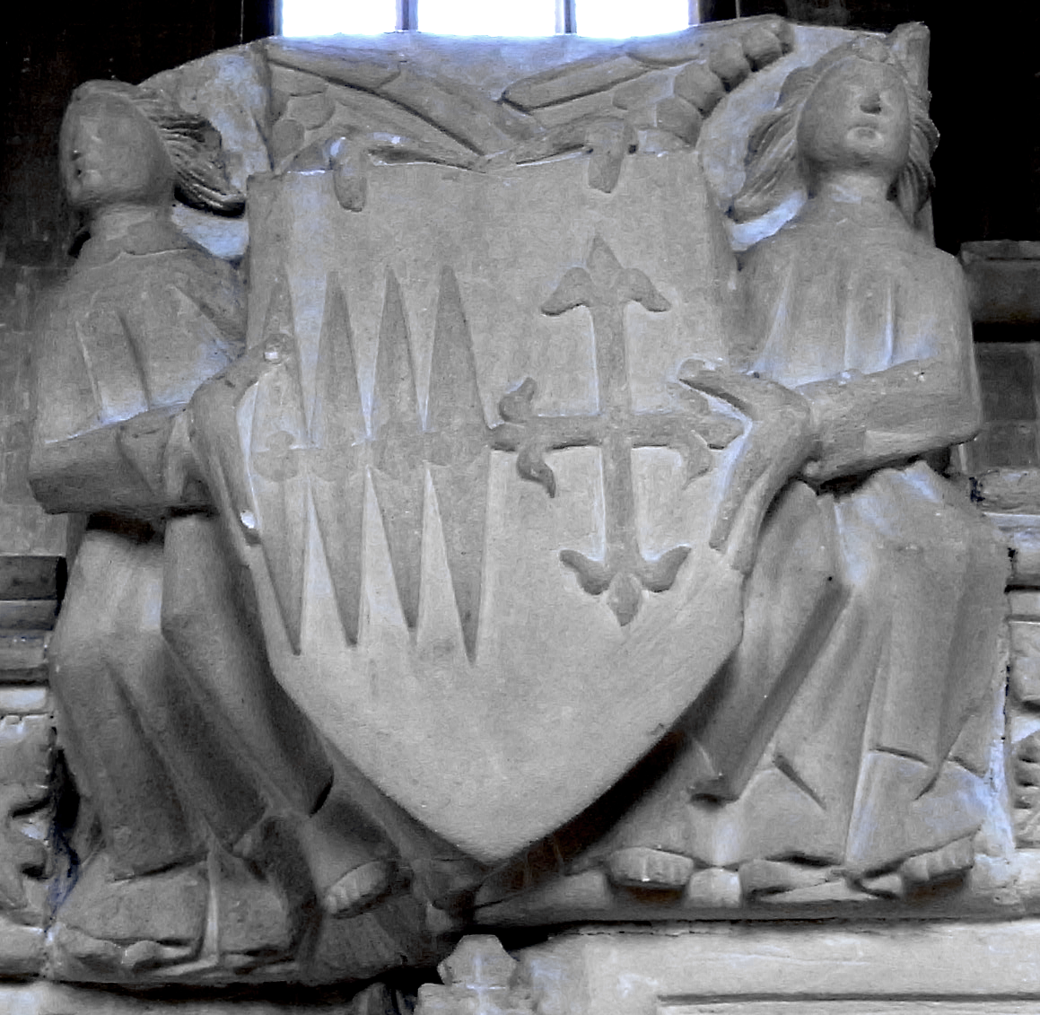 Arms of Sir Ralph Cheney (d.1420) of Brook, Westbury, Wiltshire, impaling Paveley, arms of his wife Joan Paveley, heiress of Brook. Edington Priory Church, Wiltshire, top of Cheney chantry chapel